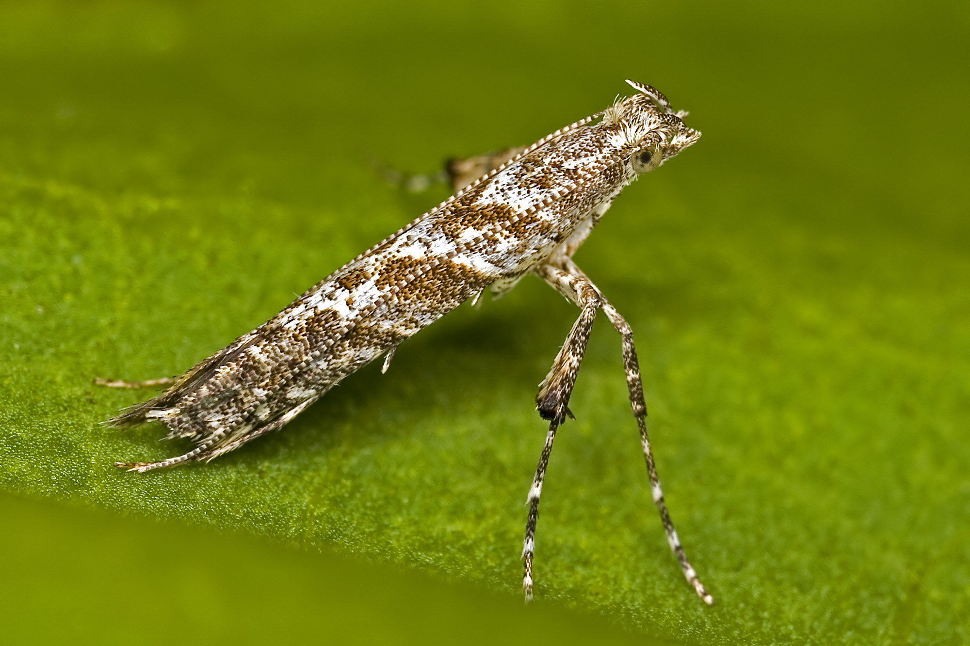 Caloptilia cuculipennella (Hübner, 1796) Location: Dresden, Pohrsdorfer Weg (Saxony, Germany) 8/65 f10 Film / Speed: ISO 100 Comment: Canon Ring Flash MR-14EX